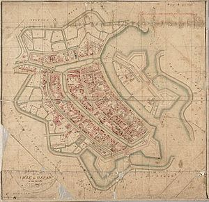 Cityplan of Weesp 1812 (Netherlands)